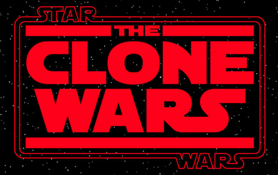 Red logo of Star Wars: The Clone Wars.